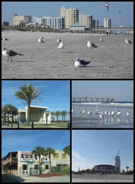 Collection of photos taken by me around Jacksonville Beach